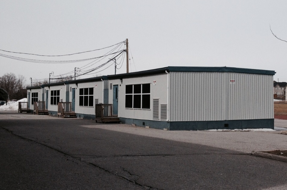 trailers